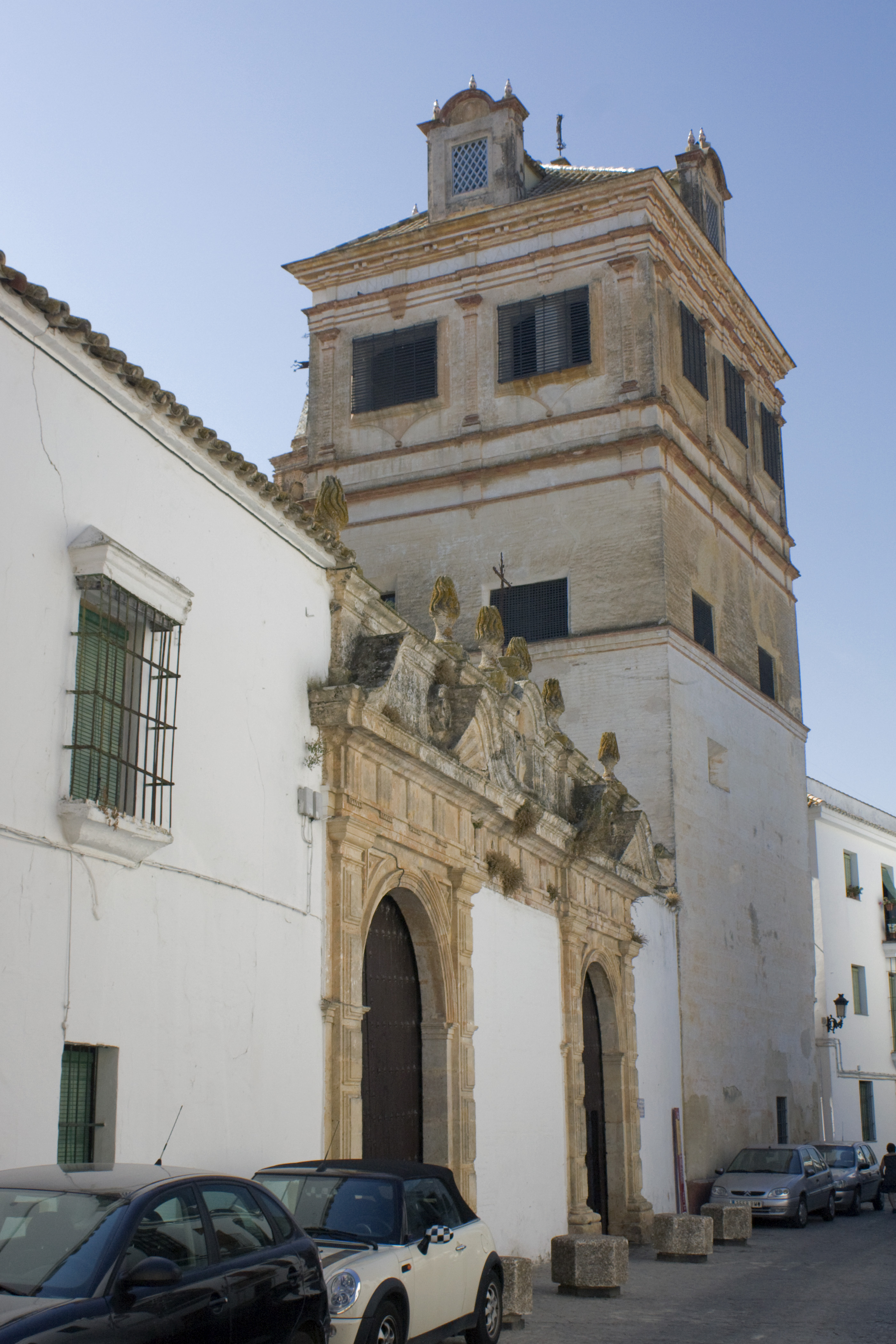 Temple around which were ordered the most recent tombs.